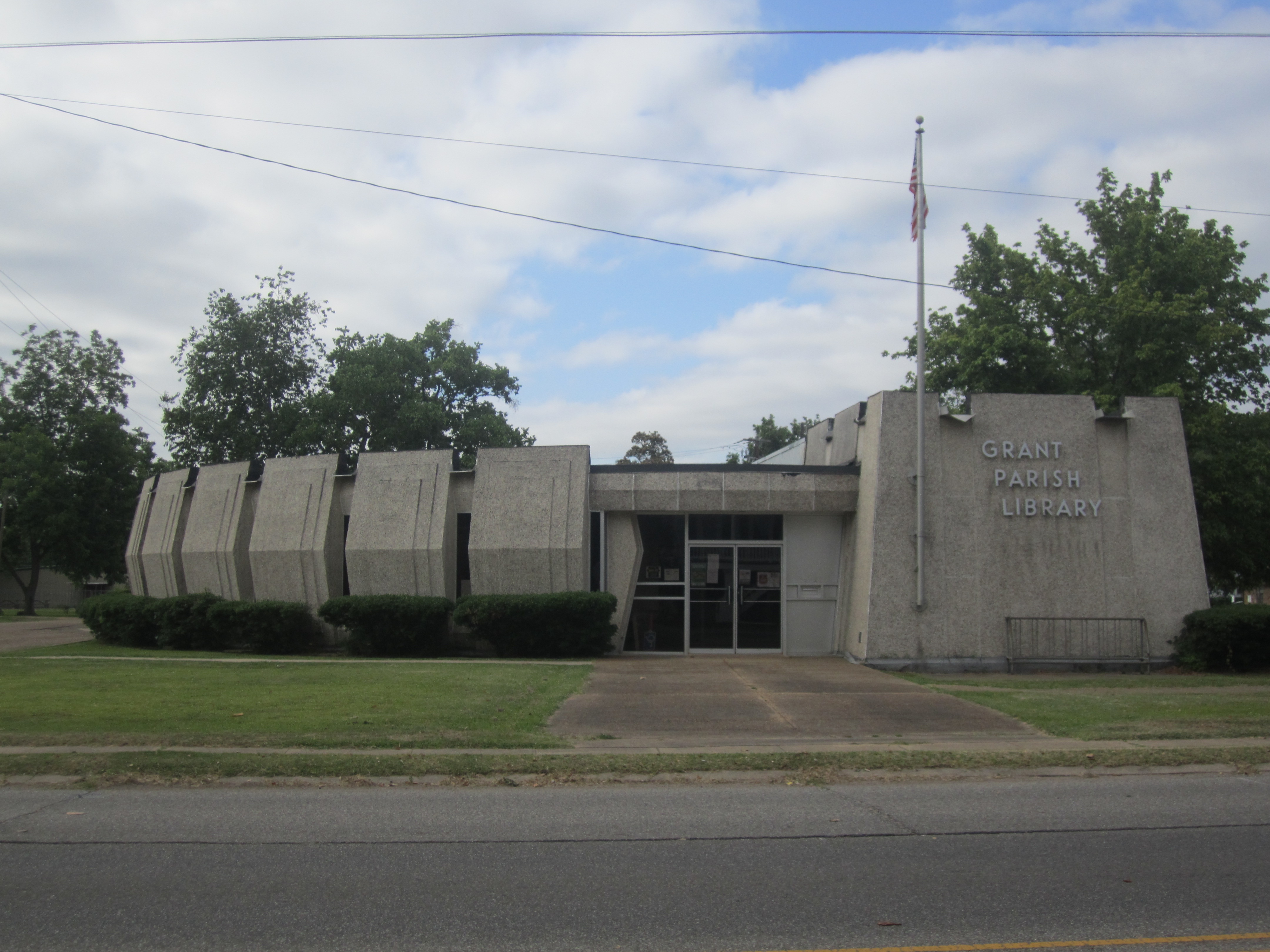 I took photo with Canon camera of Grant Parish Library in Colfax, LA.